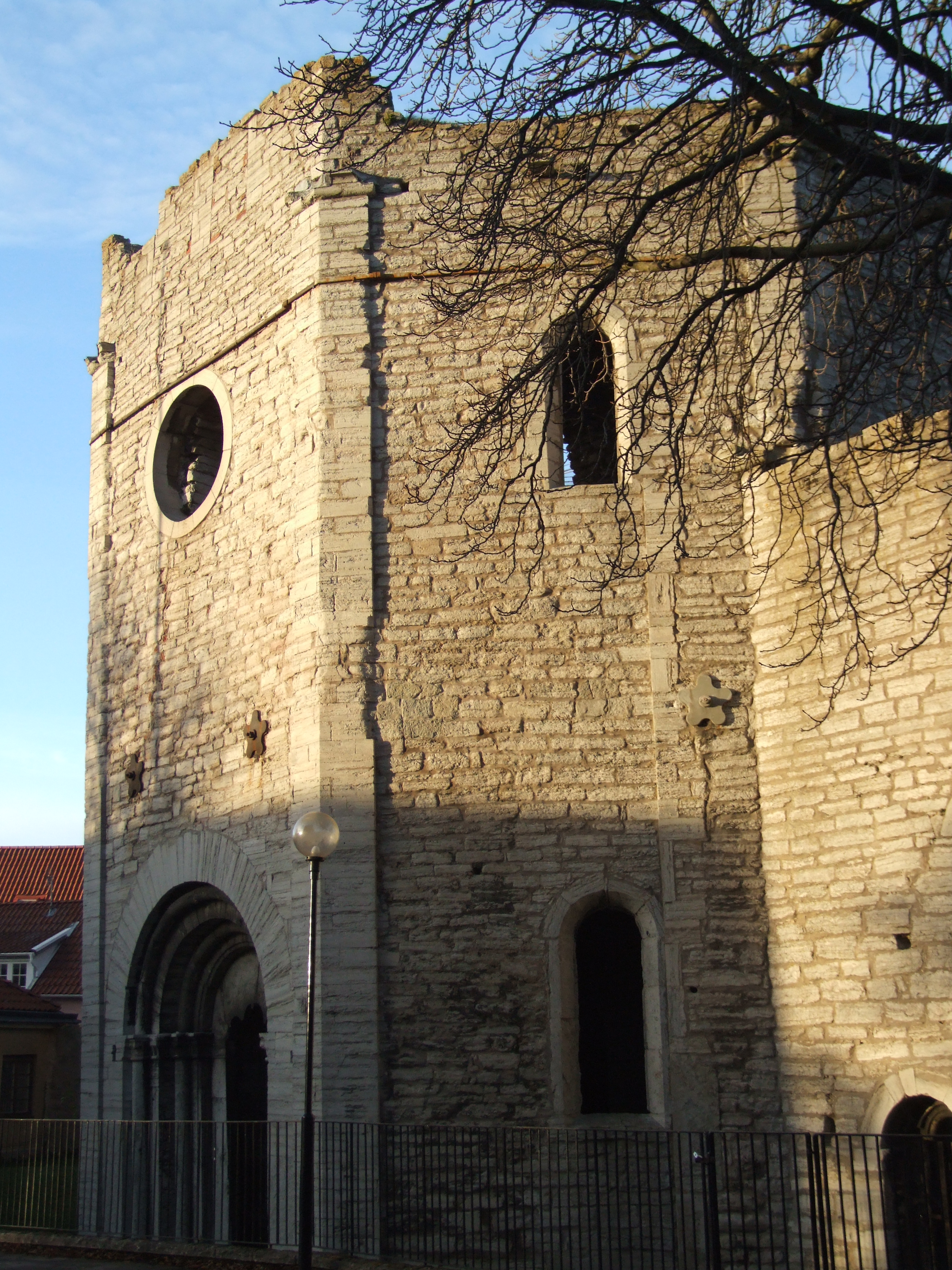 Helgeand, Visby.